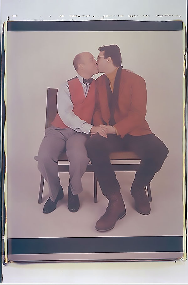 Bruce Cratsley And William Leight, Elsa Dorfman. The author of the article wrote to the photographer (Elsa Dorfman), requesting use of the portraits she did of Bruce Cratsley, and these images were provided as the primary means of visual identification of the subject of the article. This is a photograph (taken by the artist) of the main subject of the article and also illustrates the artist's life (his lover, his dogs). The subject is unique, and it cannot be replaced with text or free content media. I have the original email in which the phographer, retired from active work, is allowing me the use of these specific images. Do not crop images, they are art work thought like this